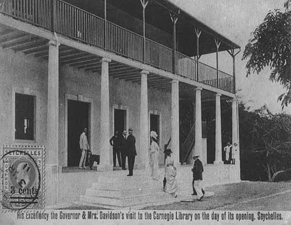 His Excellency the Governor (Sir Walter Edward Davidson) & Mrs. Davidson's visit to the Victoria Carnegie Library, on the day of its opening in 1910. The present day National Library of Seychelles, in Victoria, the Seychelles.